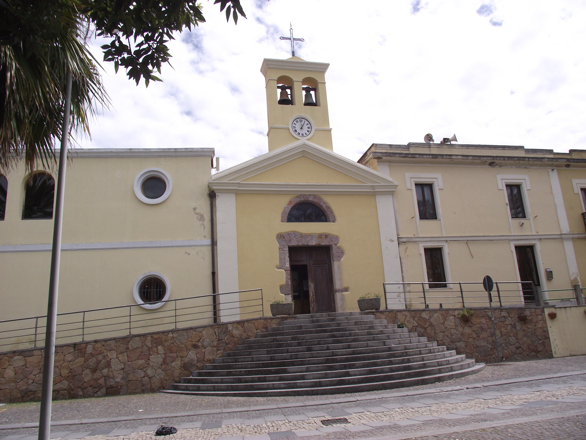 The San Nicolò church in Santadi, Sardinia, Italy